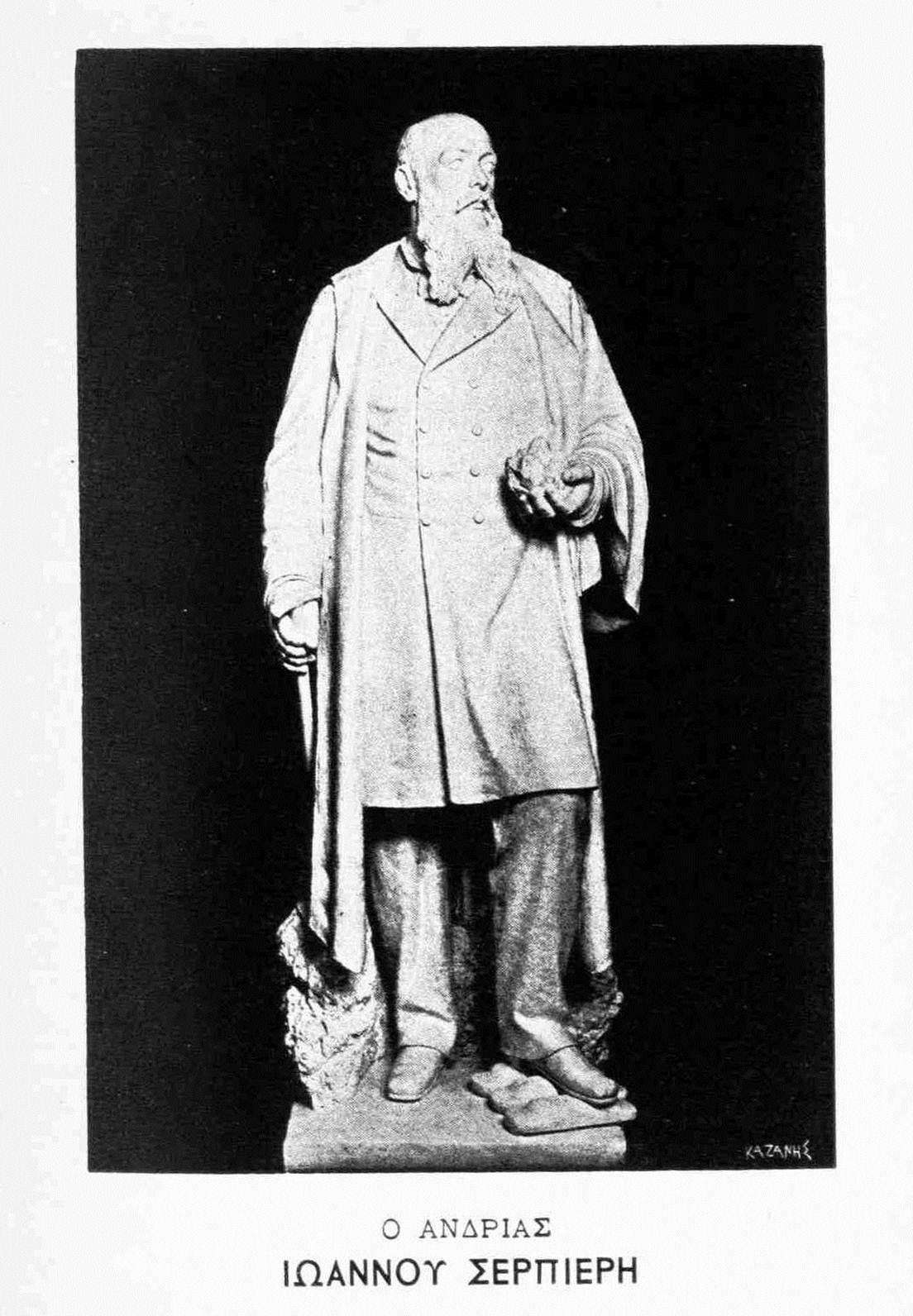 The statue of Giovanni Battista Serpieri, which was setup in Lavrio